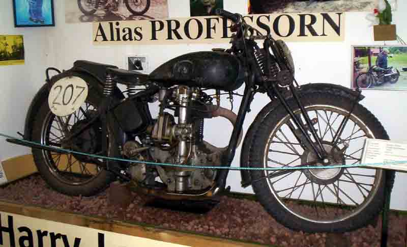 Eiber Special 500 cc